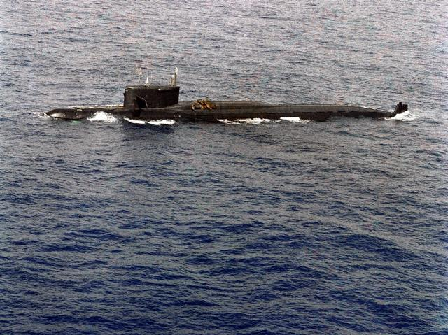 ID: DNSC8700805 A port view of a Soviet Yankee class nuclear-powered ballistic missile submarine that was damaged by an internal liquid missile propellant explosion. Three days later the ship sank in 18,000 feet of water. Location: ATLANTIC OCEAN (AOC)